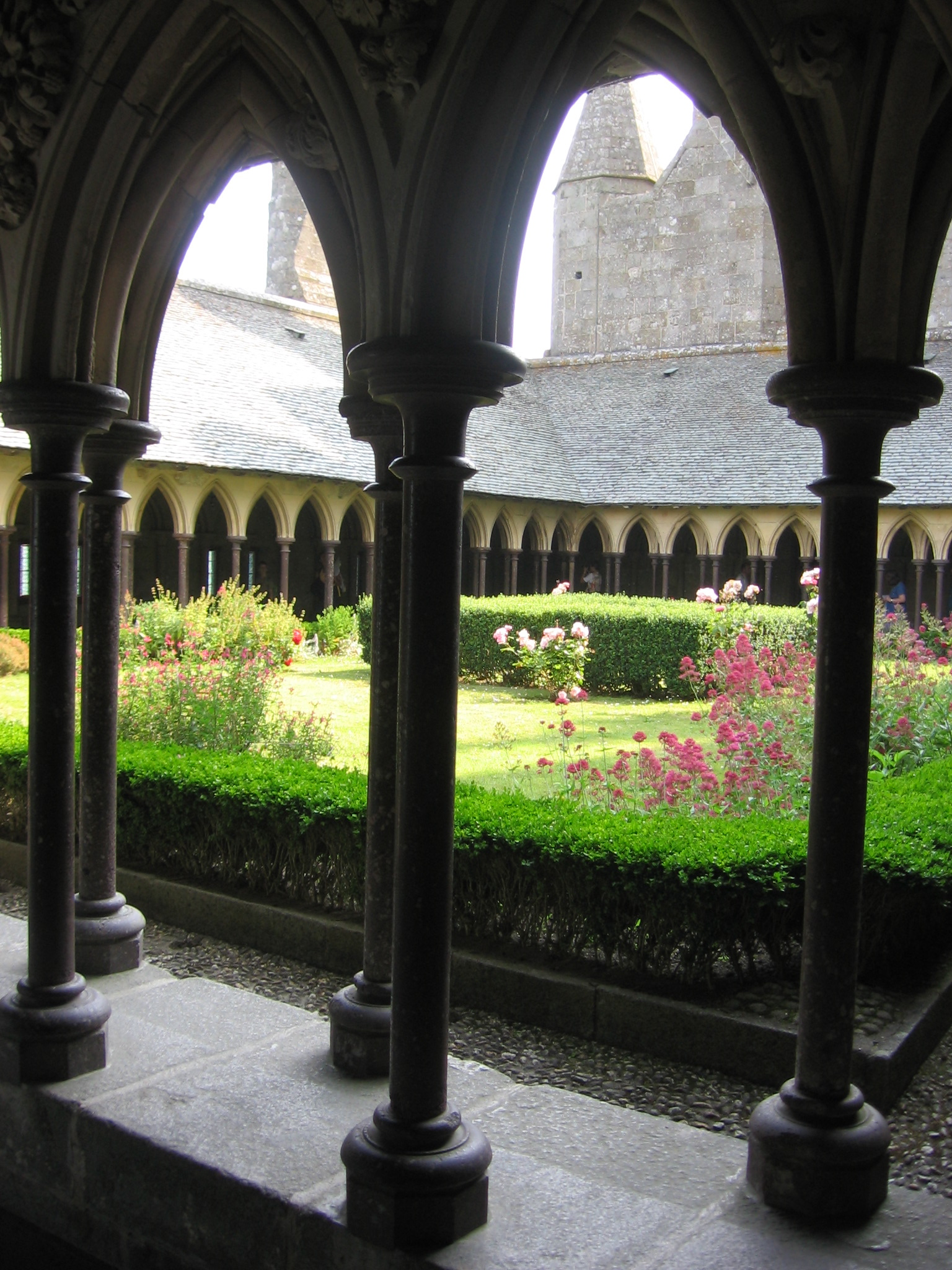 taken by Kathleen Carmody, summer 2005